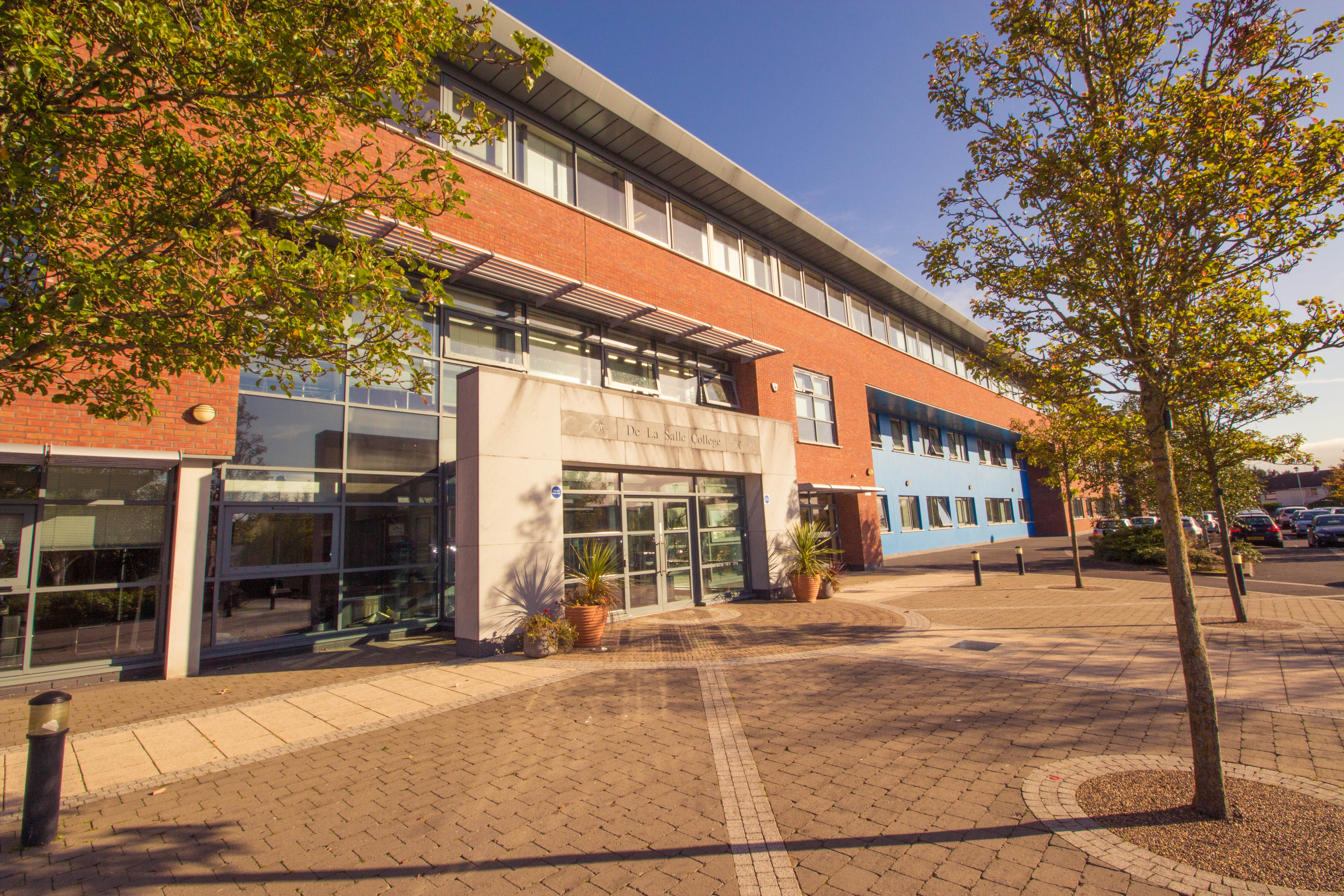 Front entrance to De La Salle College, Belfast